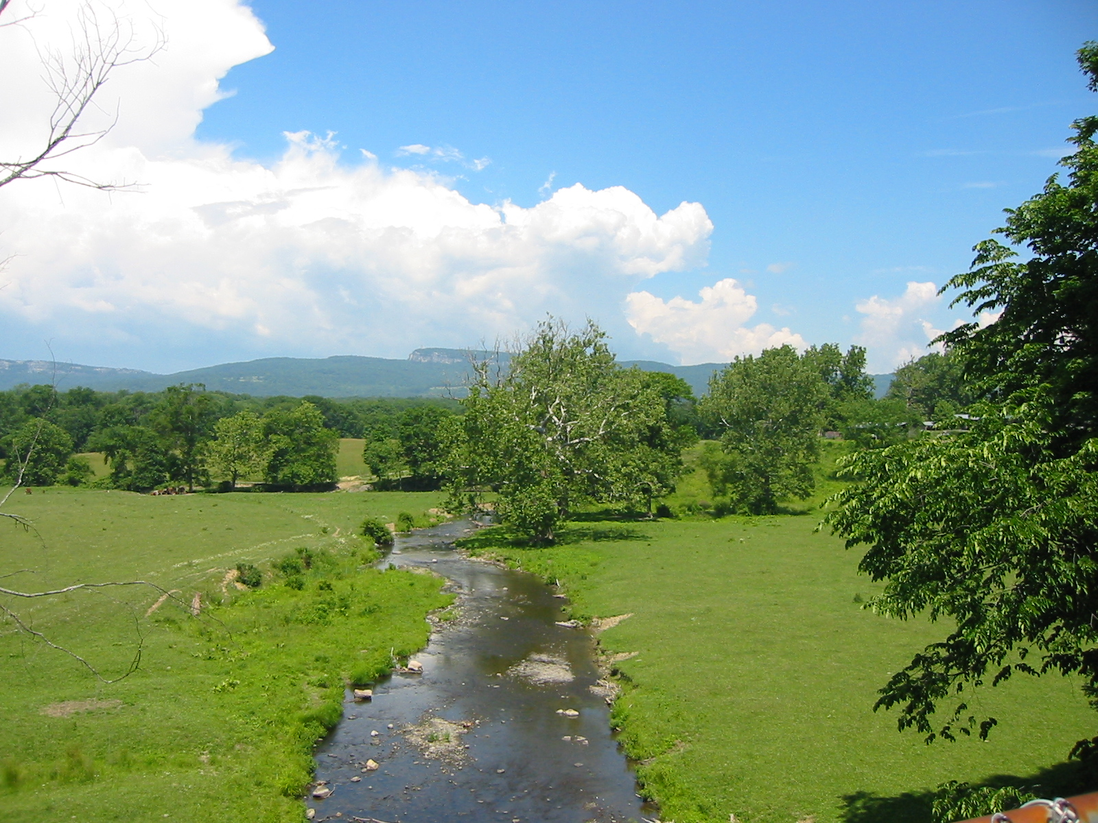 I took this picture and grant Wikipedia full permission to use it.